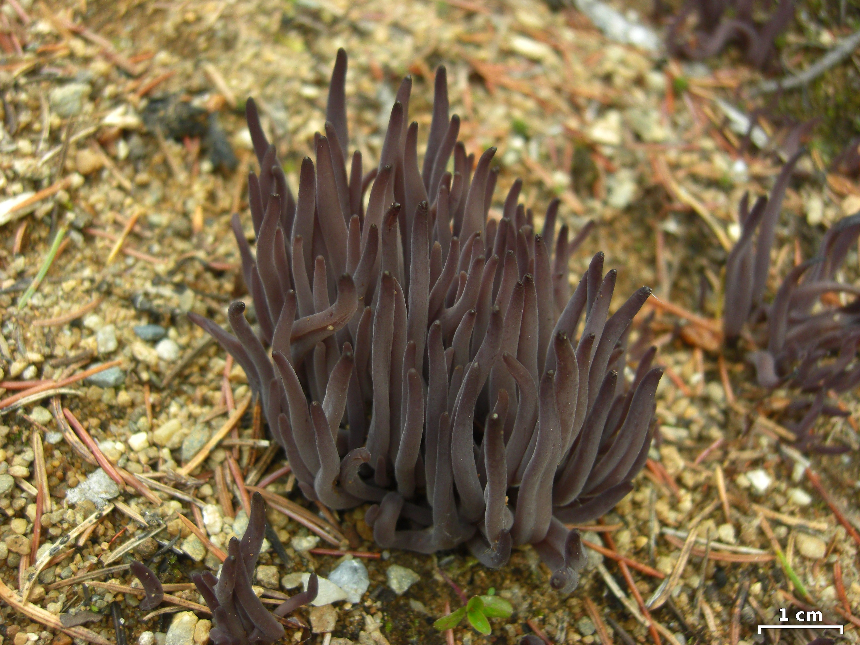 Alloclavaria purpurea (Fr.) Dentinger & D.J. McLaughlin